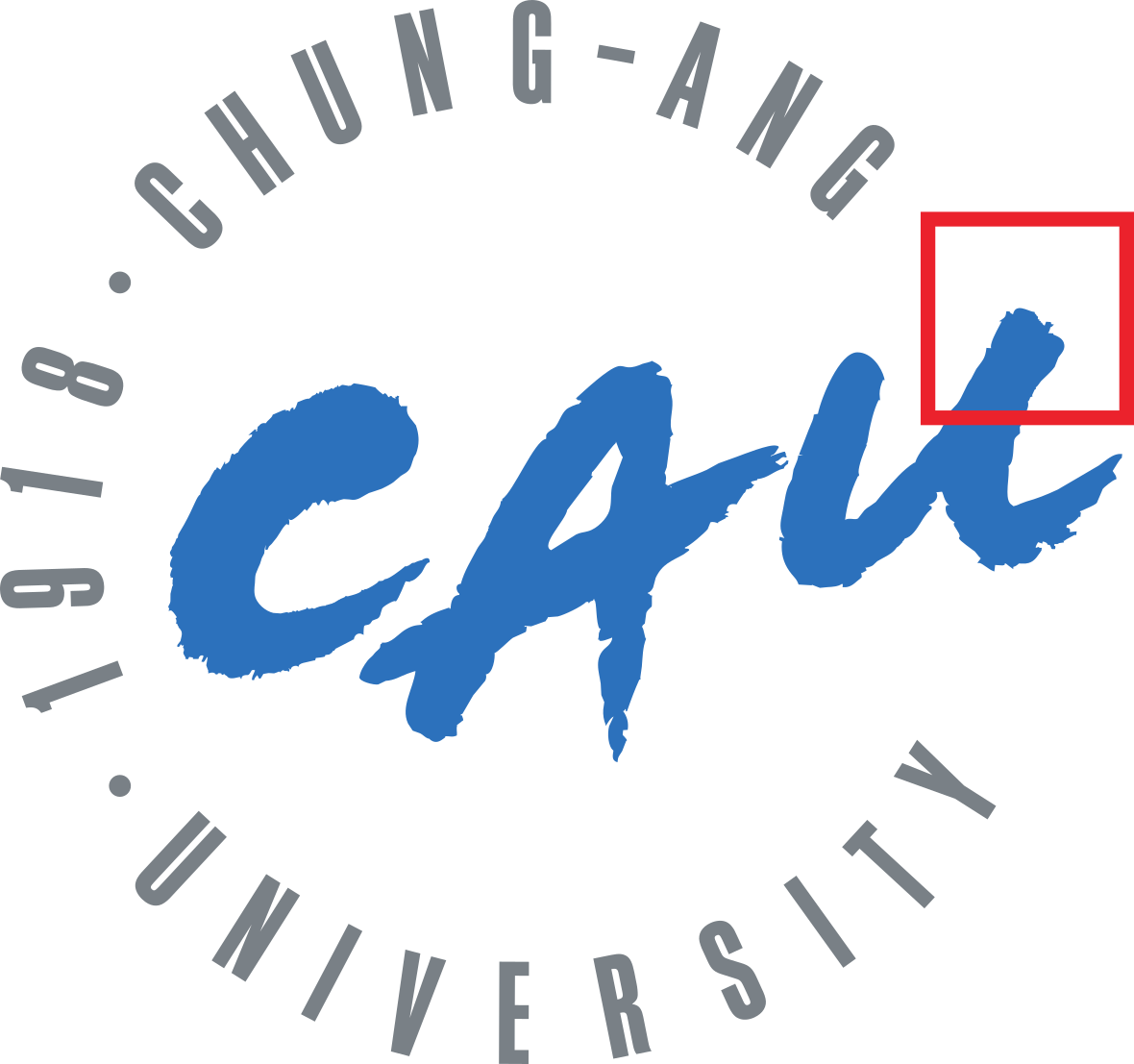 Chung-Ang University logo